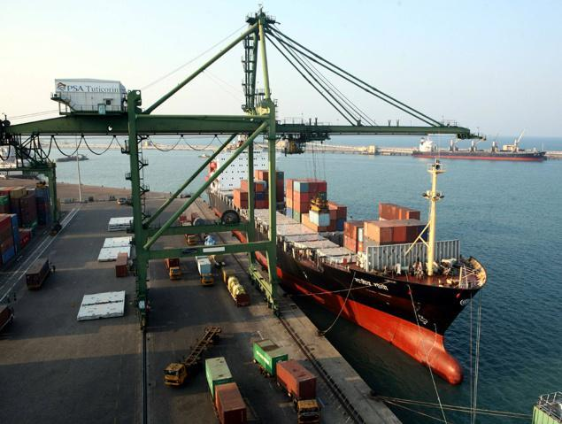 A View of Tuticorin Port